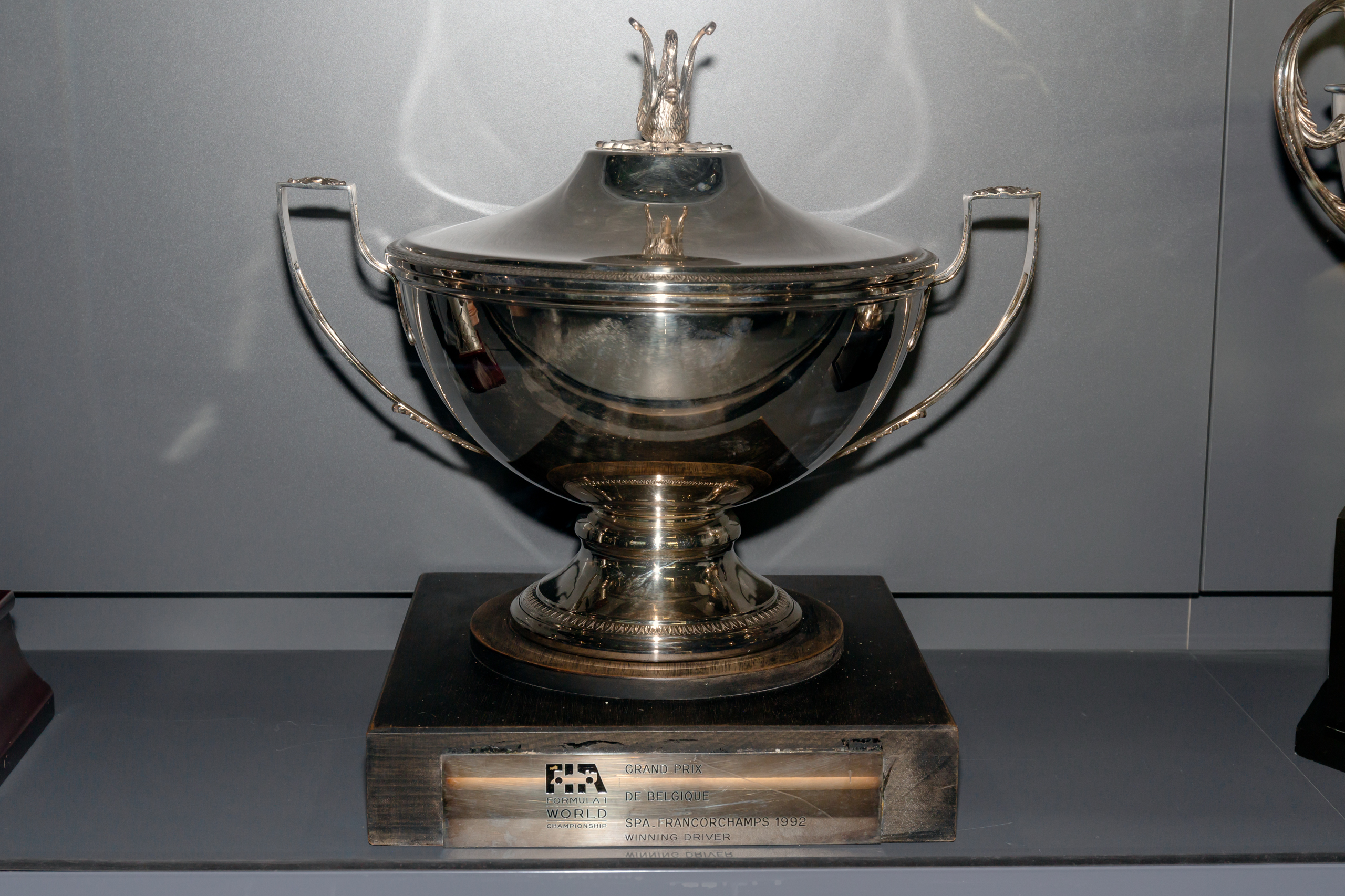 Michael Schumacher Private Collection: 1992 Belgian Grand Prix winner's trophy